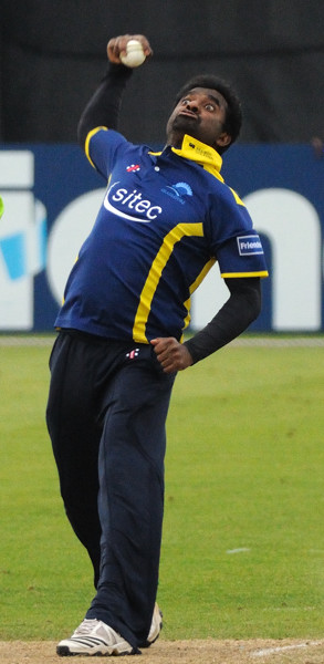 Muttiah Muralitharan's last game in England: 13 July 2011